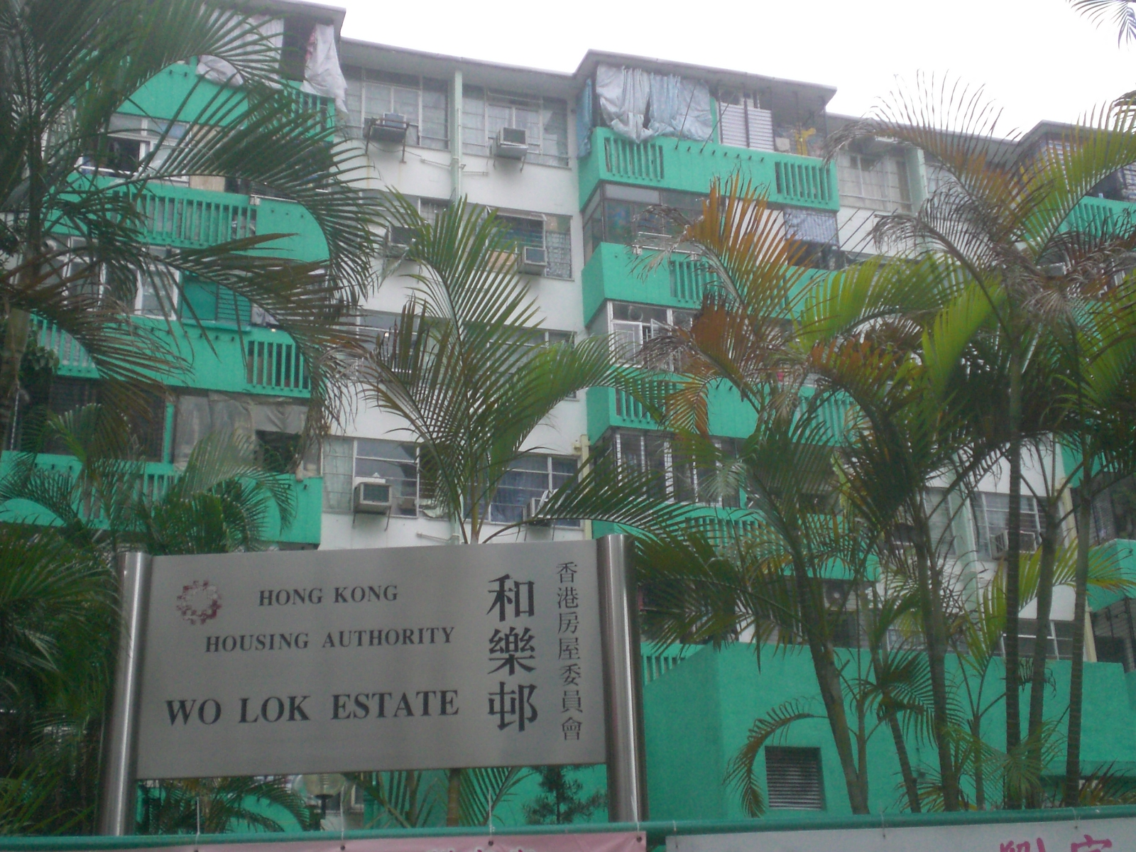 觀塘月華街